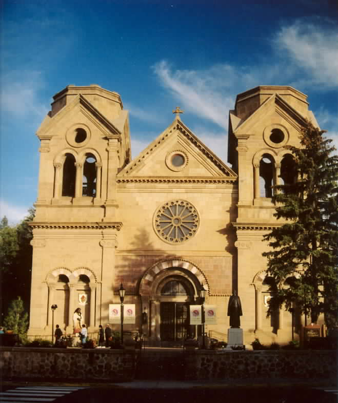 wikipedia exclusive photo by Einar Einarsson Kvaran Santa Fe